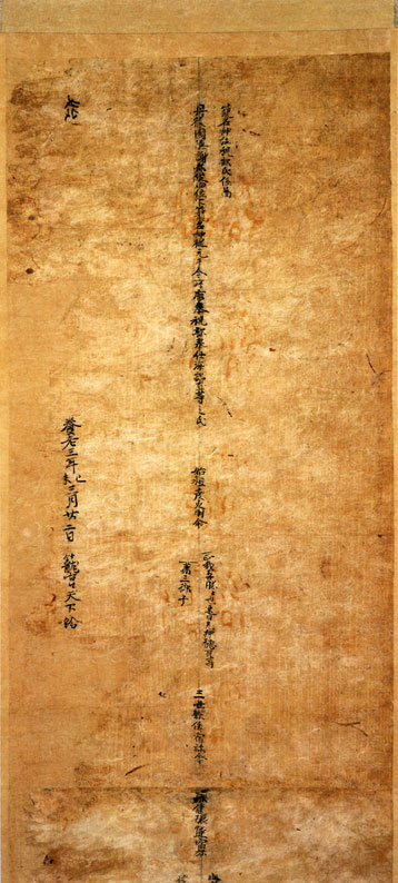 Genealogy of the Amabe Clan (海部氏系図, amabeshi keizu), the oldest extant Japanese family tree. The scroll has been nominated as National Treasure of Japan in the category ancient documents.